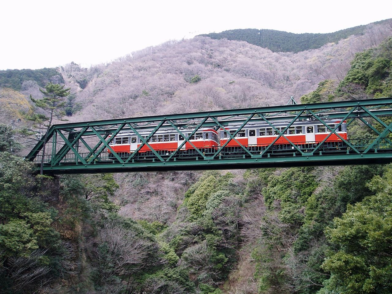 Hakone Tozan Railway Hayakawa Bridge